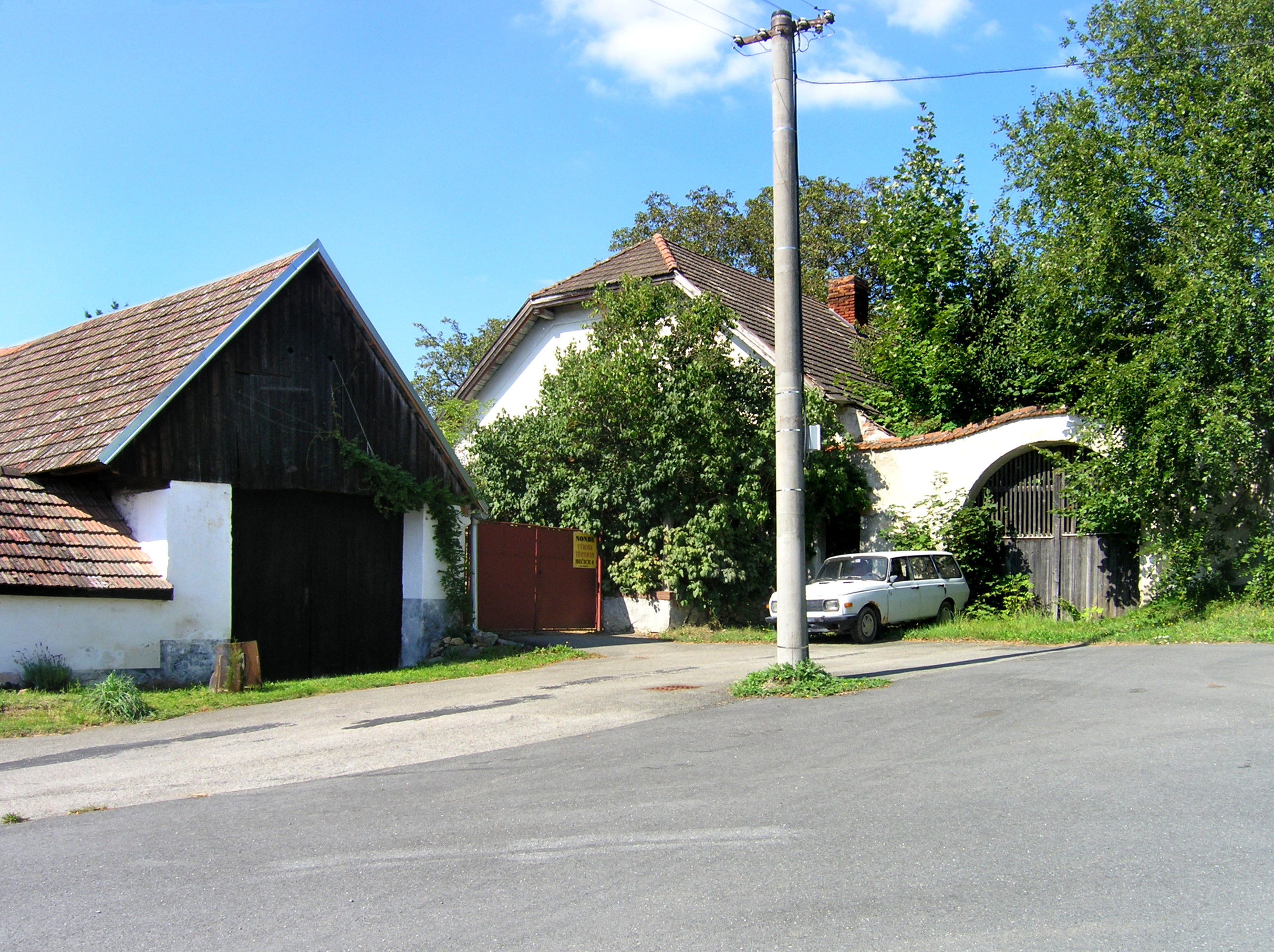 Common in Bečice village, Czech Republic